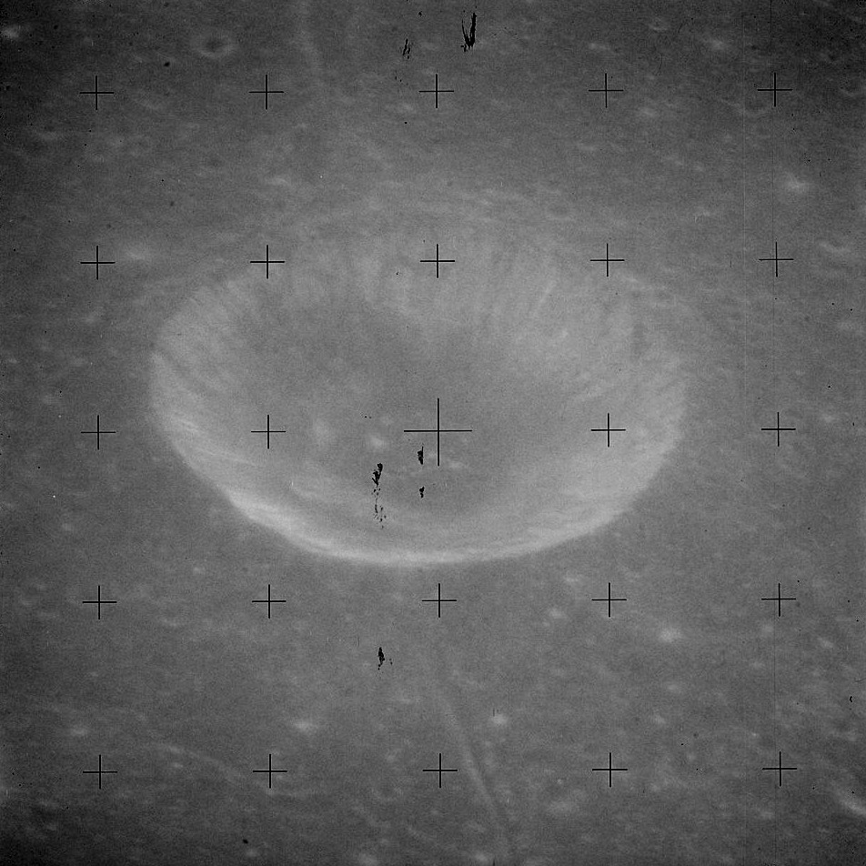 Oblique view of Sosigenes A crater from Apollo 15. Contrast and brightness adjusted. Full resolution source image was not used due to blurring of the original.